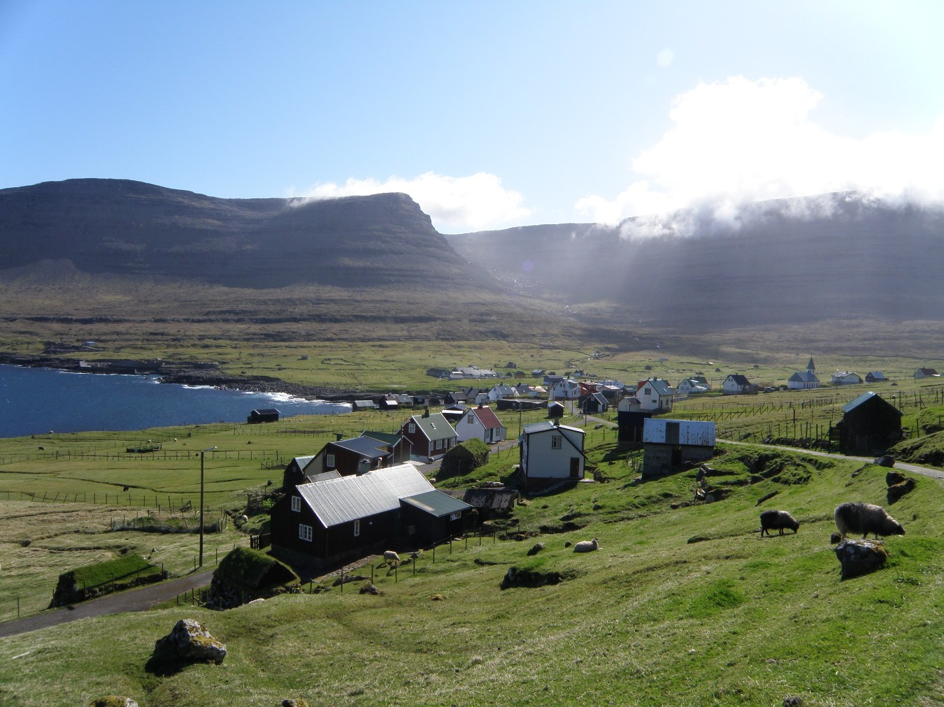 Svínoy is one of the islands in the Northern Islands of the Faroe Islands. There is only one village, it is located on the east coast. The ferry port is on the west coast, not so far from the village, you can walk from the ferry port to the village. Less than 50 people live on the island. This photo is also on Flickr